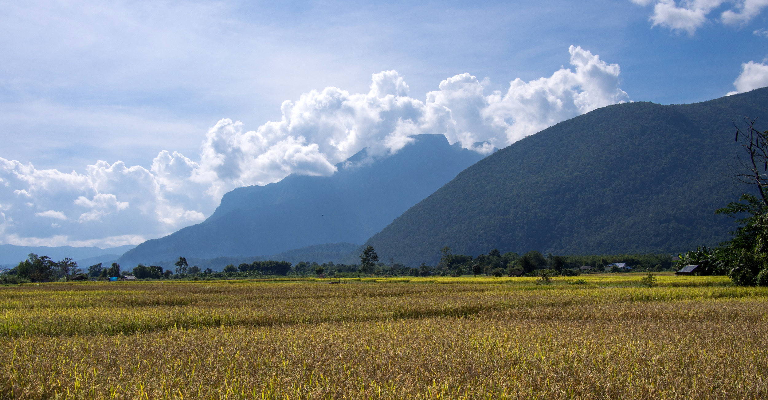 Doi Chiang Dao in the clouds as seen from the northeast